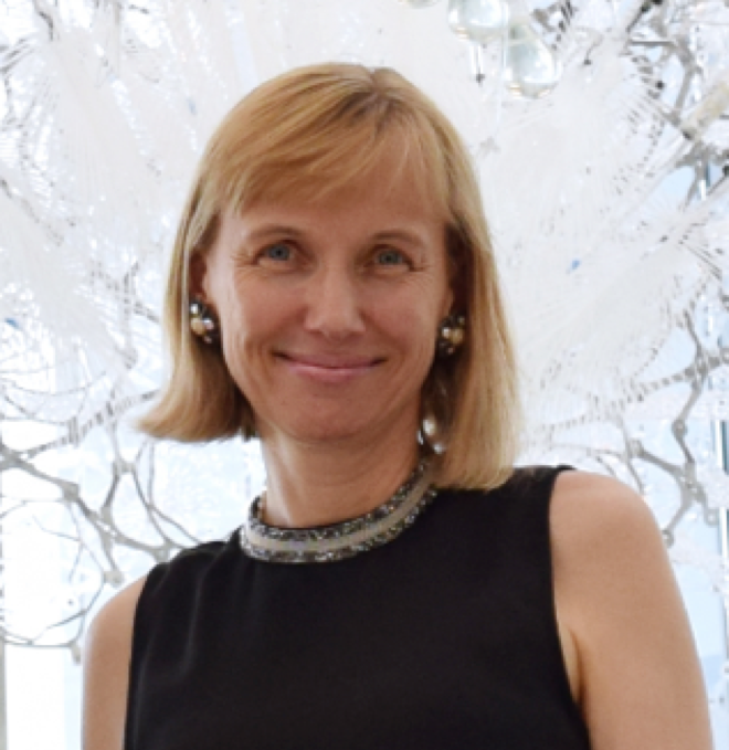 Dr. Börner in 2019